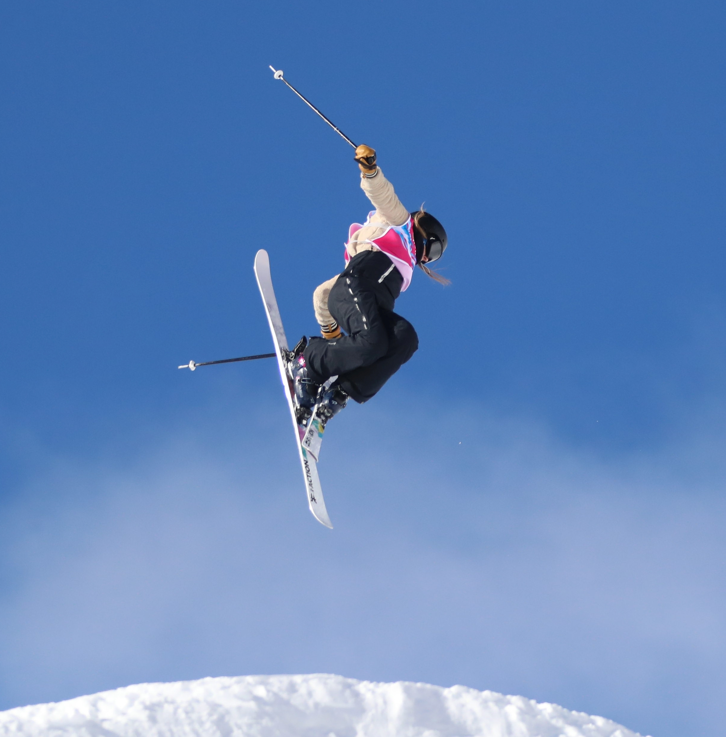 2nd final run of Freestyle skiing – Women's Freestyle Slopestyle at the 2020 Winter Youth Olympics in Lausanne on 18 January 2020.